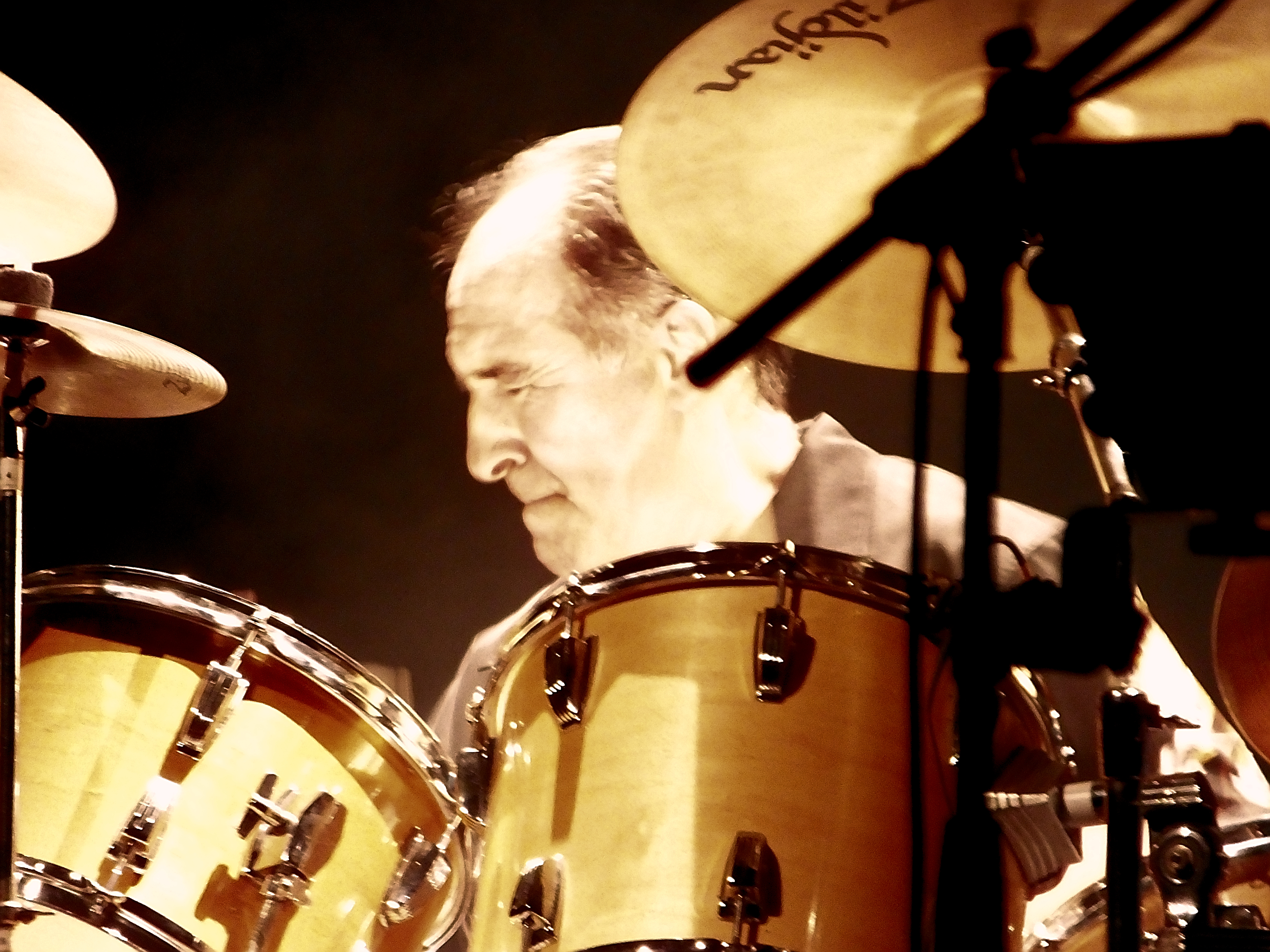 Tony Fernandez on stage at brazilian tour Voyage to the Centre of the Earth, in Belo Horizonte, Brazil, 01 november, 2014.